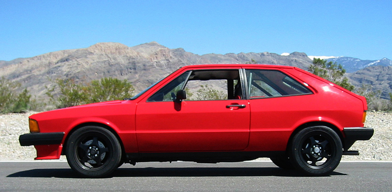 1970s VW Scirocco with oem Zender airdam/spoiler, way ahead of its time!